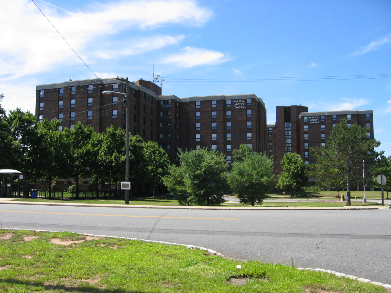 North Tower (left) and South Tower (right) are eight story dormitory buildings located on Livingston Campus